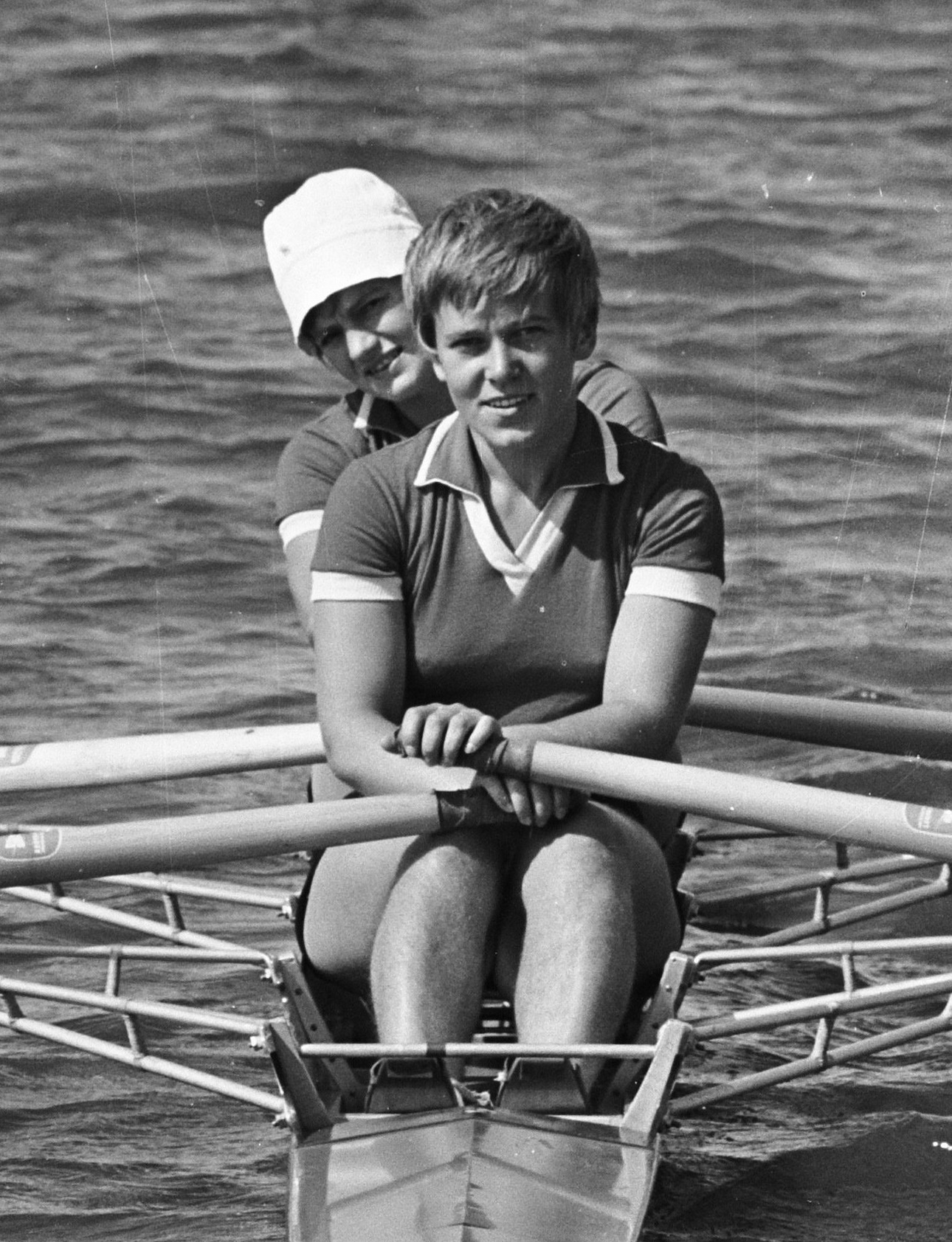 Training at the Bosbaan for the European Rowing Championships; the strong Russian double scull with Maya Kaufmane (front) and Daina Šveica (Mellenberg), both from Dynamo Riga